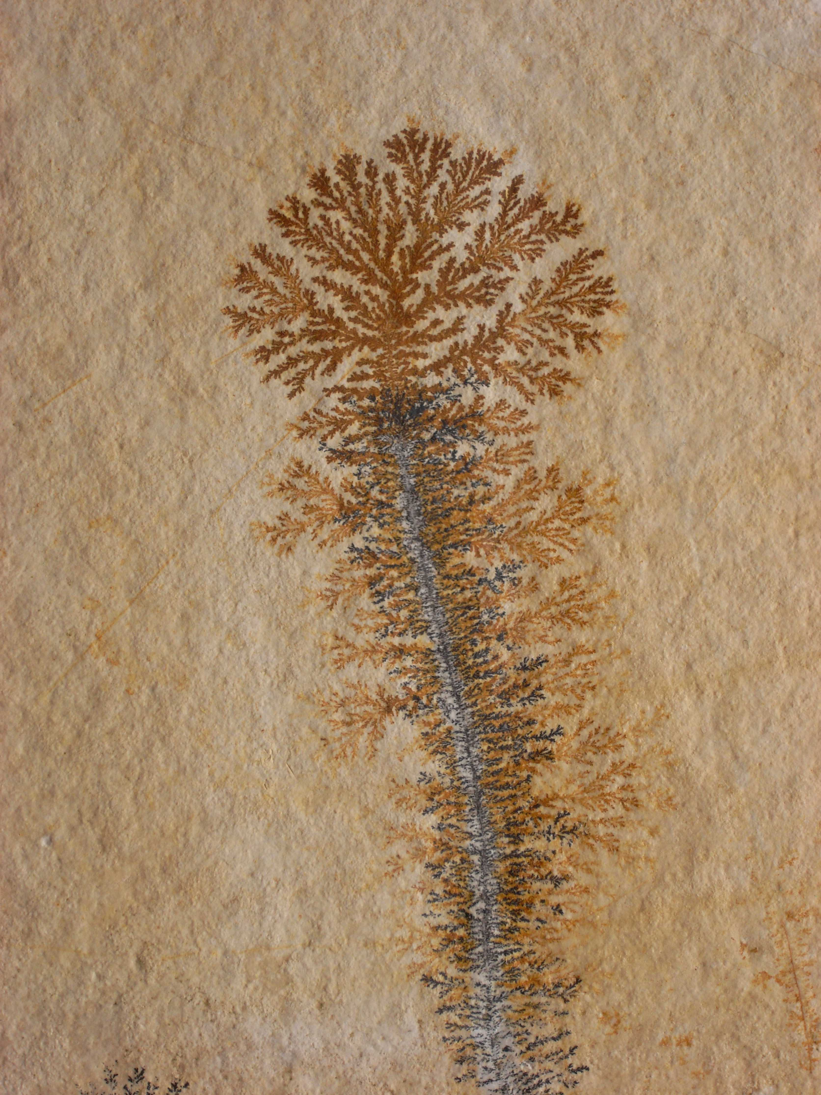 Dendrite in Solnhofen limestone, german